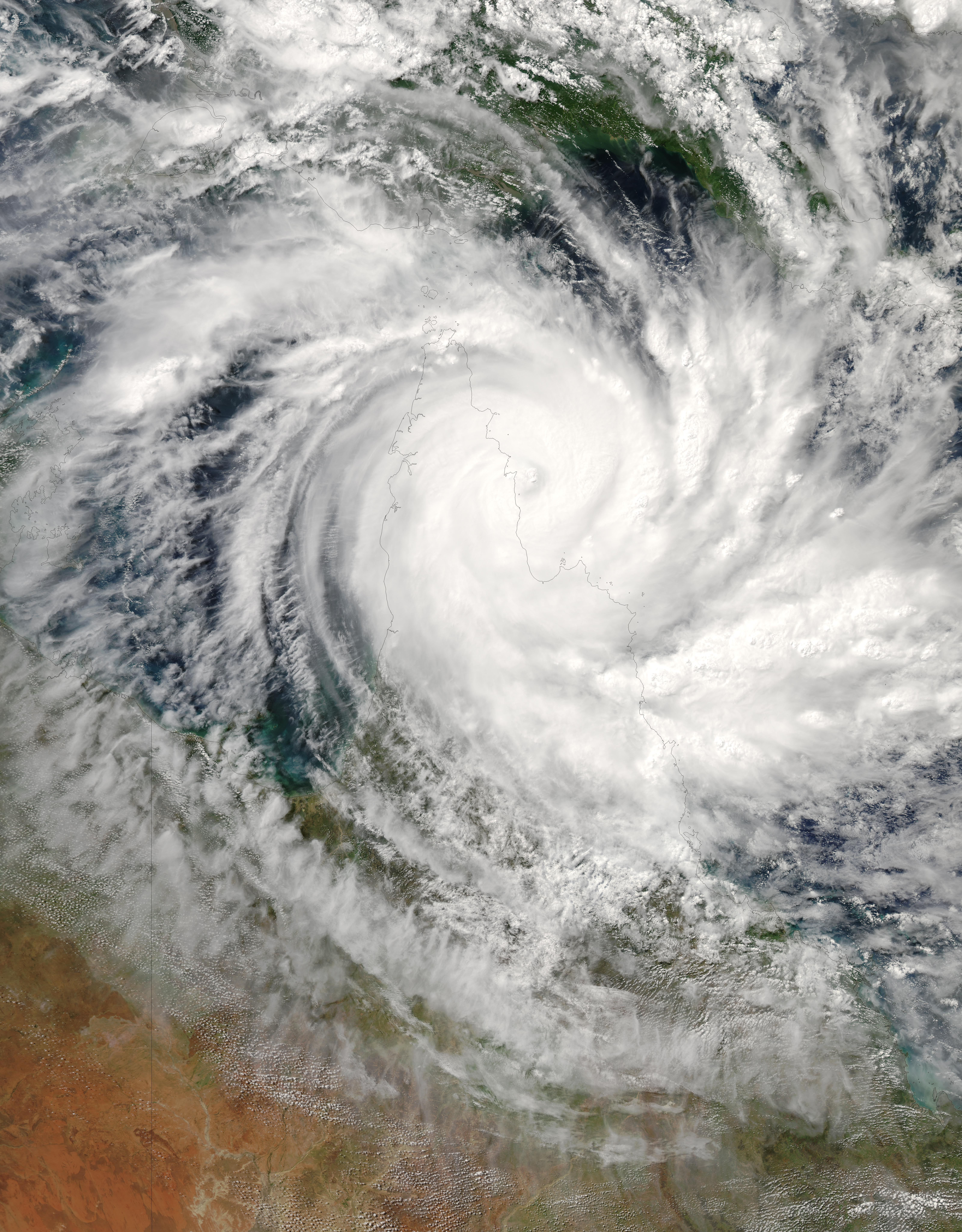 Tropical Cyclone Monica formed off the northeastern coast of Australia on April 17, 2006. This is the same general area where Cyclone Larry formed a month earlier. Larry caused devastation to Queenland’s coastal communities and destroyed a large fraction of the banana trees in the region. Cyclone Monica was not predicted to be anywhere near as destructive as Larry, and Monica’s path across Cape York Peninsula in northern Queensland would take it well away from most settled areas. This photo-like image was acquired by the Moderate Resolution Imaging Spectroradiometer (MODIS) on the Aqua satellite on April 19, 2006, at 2:10 p.m. local time (04:10 UTC). Cyclone Monica at this time had a large spiral form, and its well-developed eye was just about to make landfall as the Aqua satellite flew overhead. Sustained peak winds in the storm system were roughly 140 kilometers per hour (85 miles per hour) around the time the image was captured. The high-resolution image provided above is provided at the full MODIS spatial resolution (level of detail) of 250 meters per pixel. The MODIS Rapid Response System provides this image at additional resolutions.